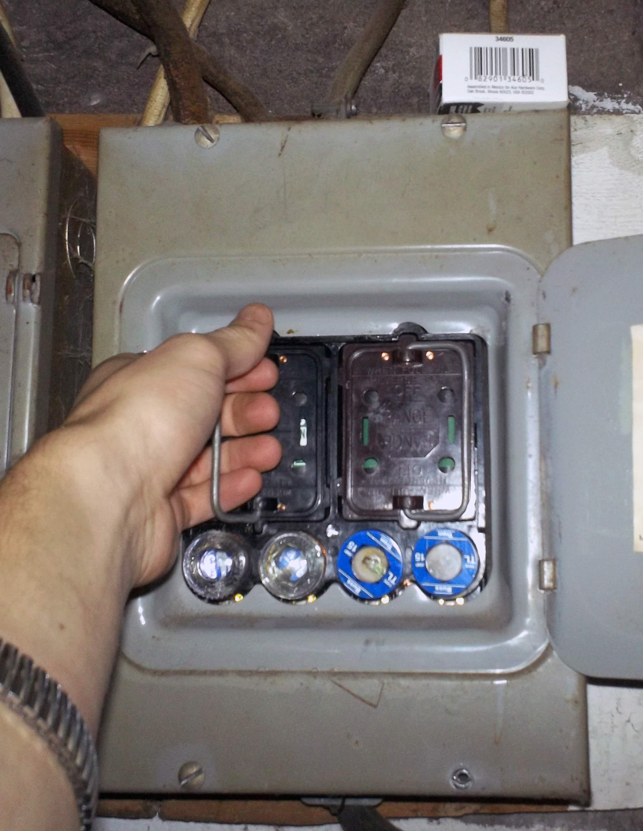 A Murray brand fuse box that is rated at 60 amps, according to the original description. The box holds two removable fuse blocks that contain cartridge fuses. Below the fuse blocks are four screw-in (Edison base) fuses. This variety of fuse box was among those used in the US in past eras.